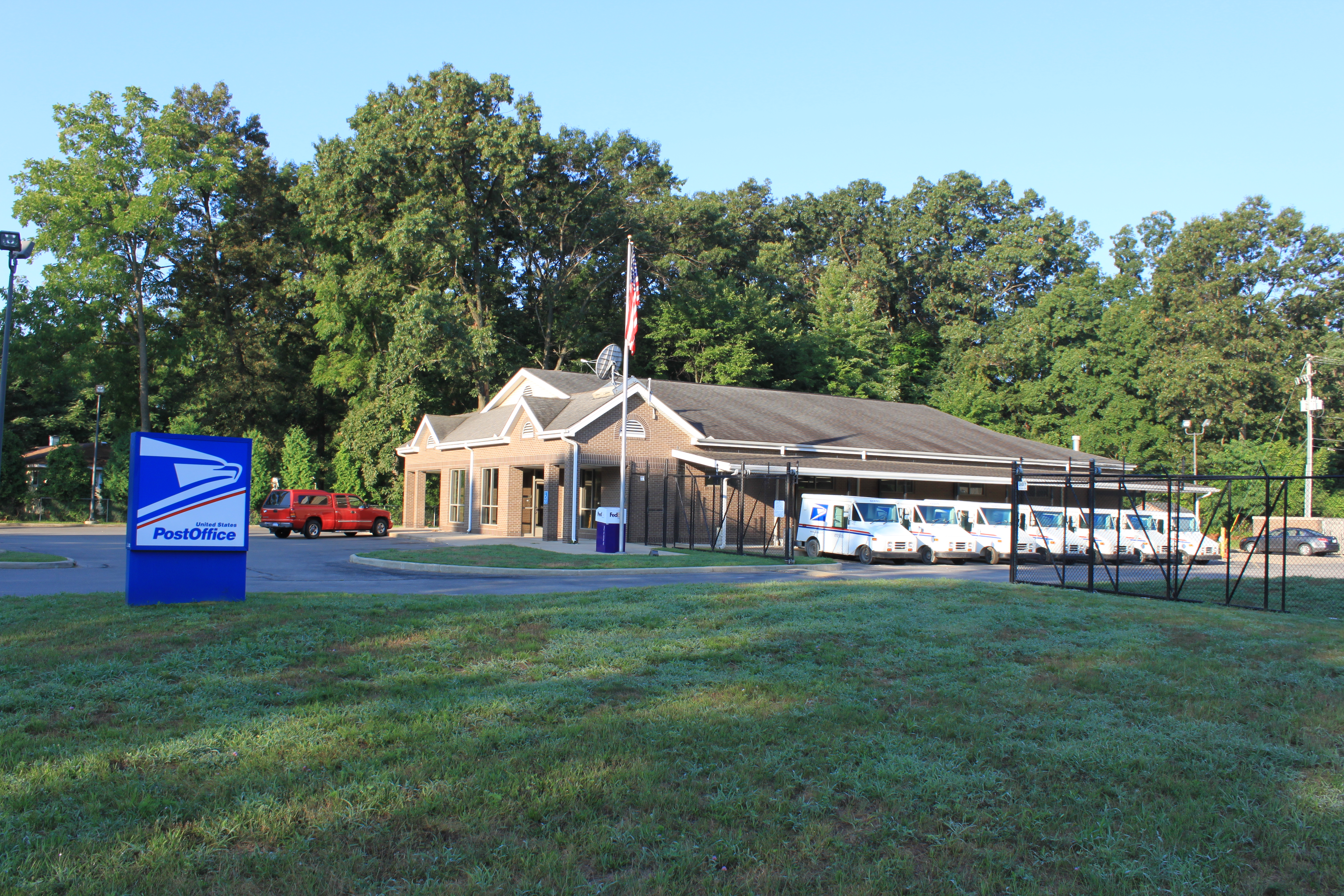 Lambertville, Michigan US Post Office, 8213 Secor Rd.